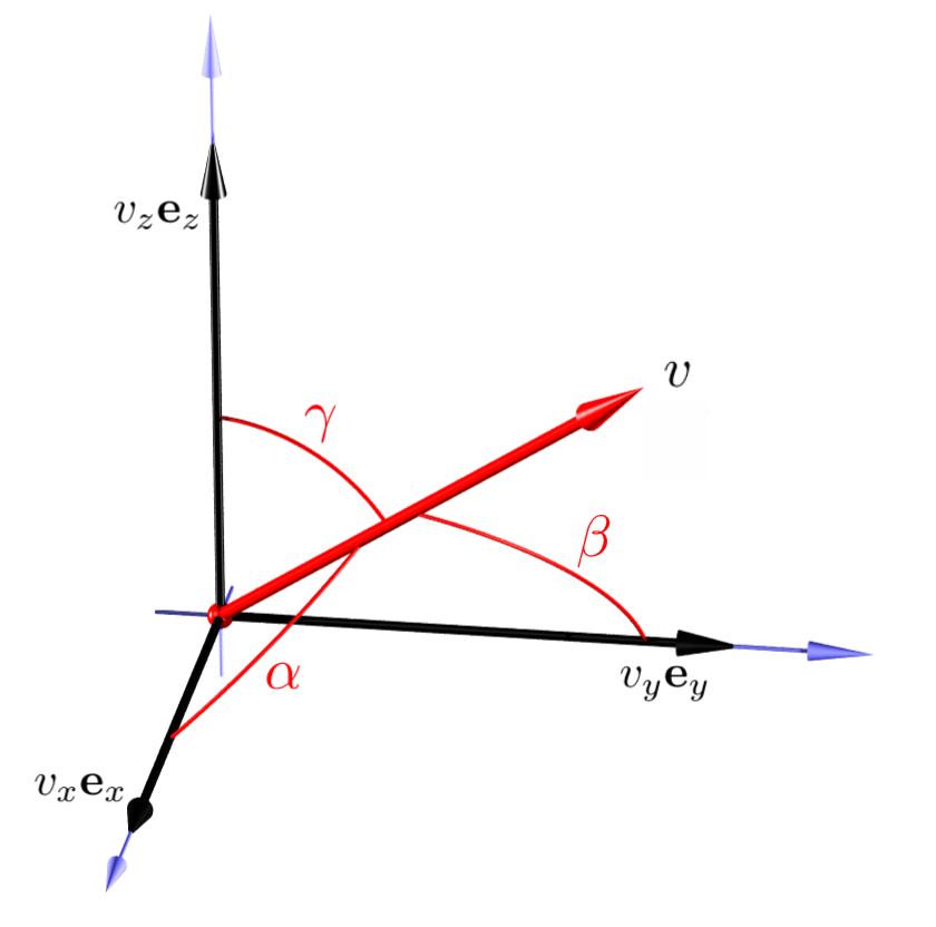 Direction cosines